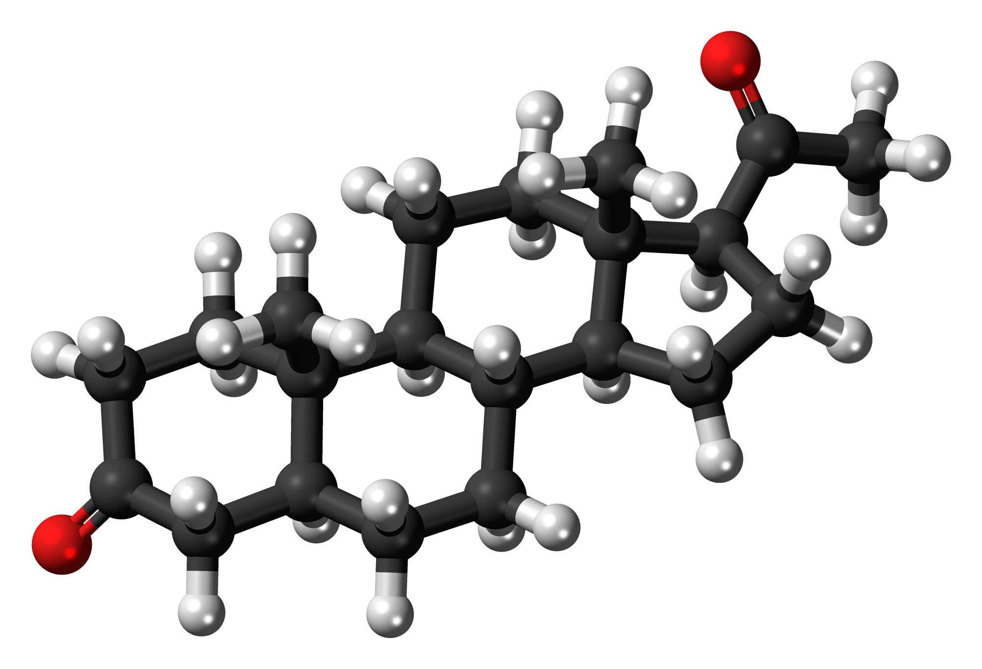 Ball-and-stick model of the 5α-Dihydroprogesterone molecule, a steroid hormone. Colour code: Carbon, C: black Hydrogen, H: white Oxygen, O: red